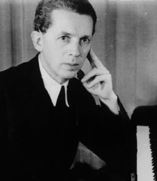 The composer of the Metamorphosis-Symphonies Martin Scherber on the grand piano about the early fifties